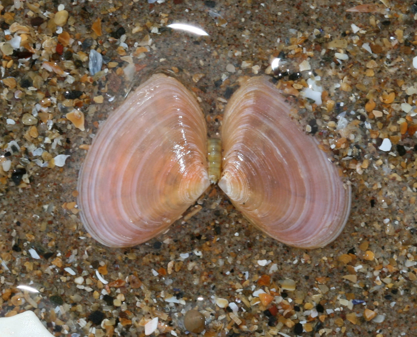 Gullane, East Lothian, Scotland.